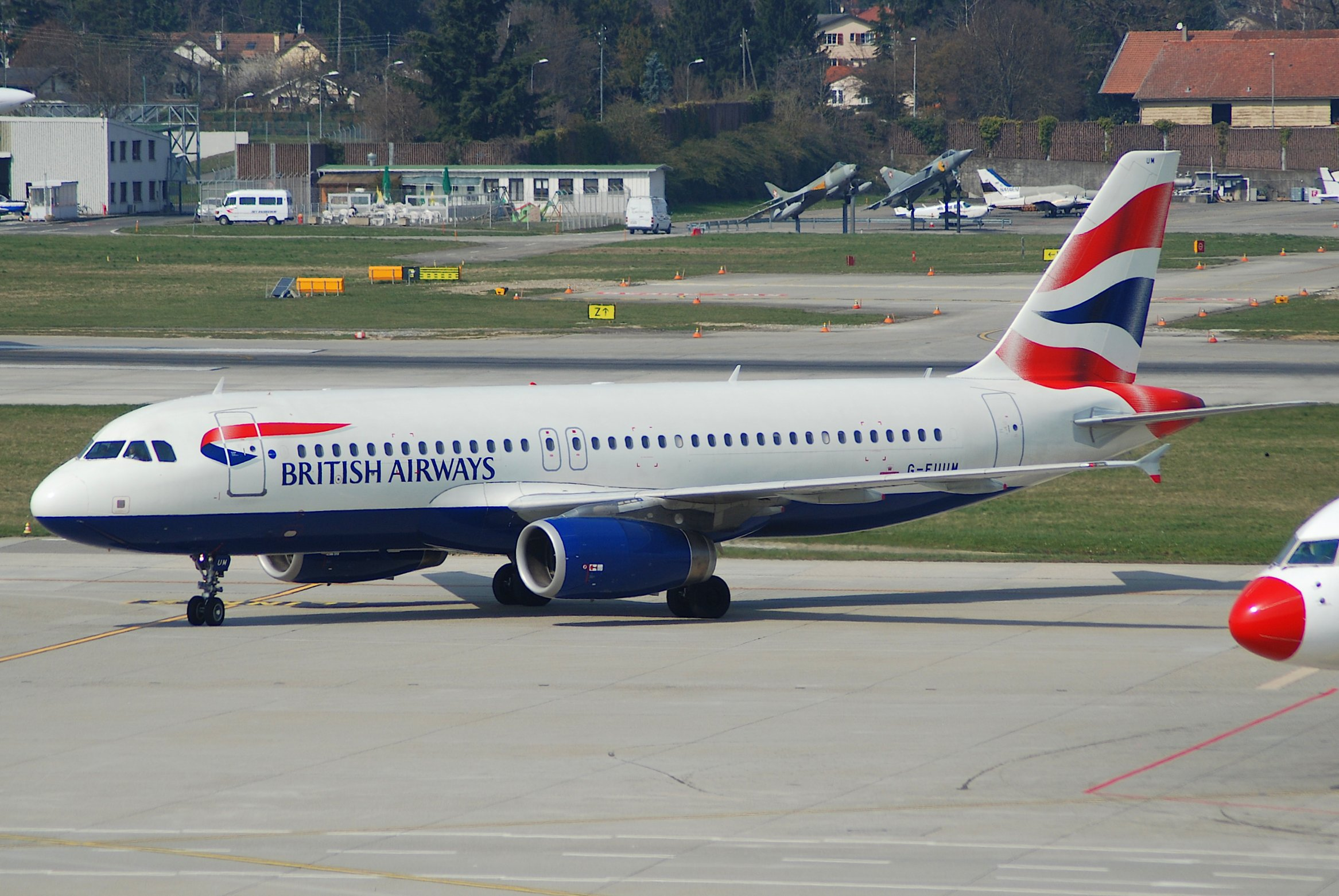 British Airways Airbus A320-232; G-EUUM@GVA;25.03.2007/456er